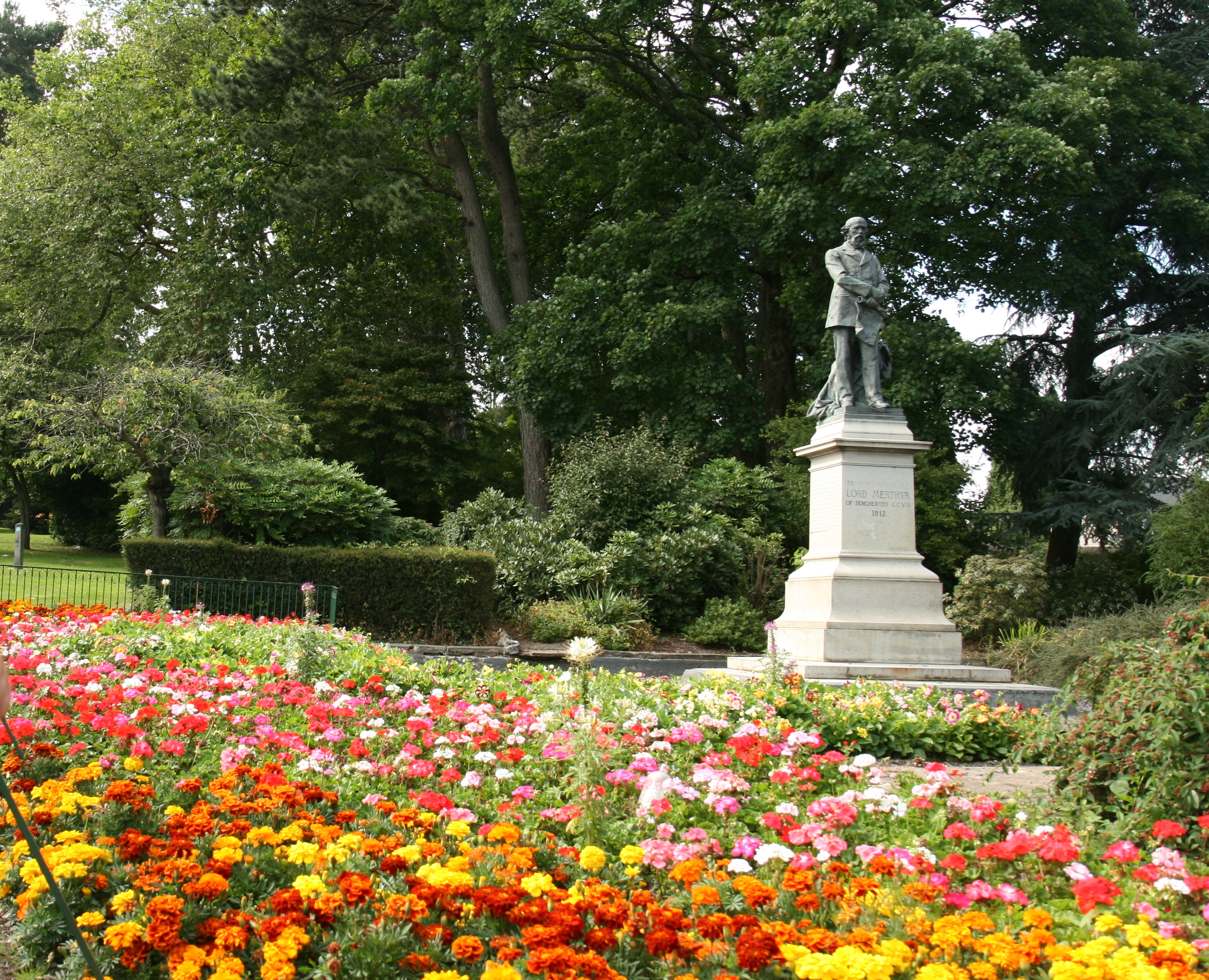 Sir William T. Lewis (Lord Merthyr) statue in Aberdare Park in late summer. Unveiled in 1913. The sculptor was Thomas Brock. Photo by Darren Wyn Rees at Aberdare Blog